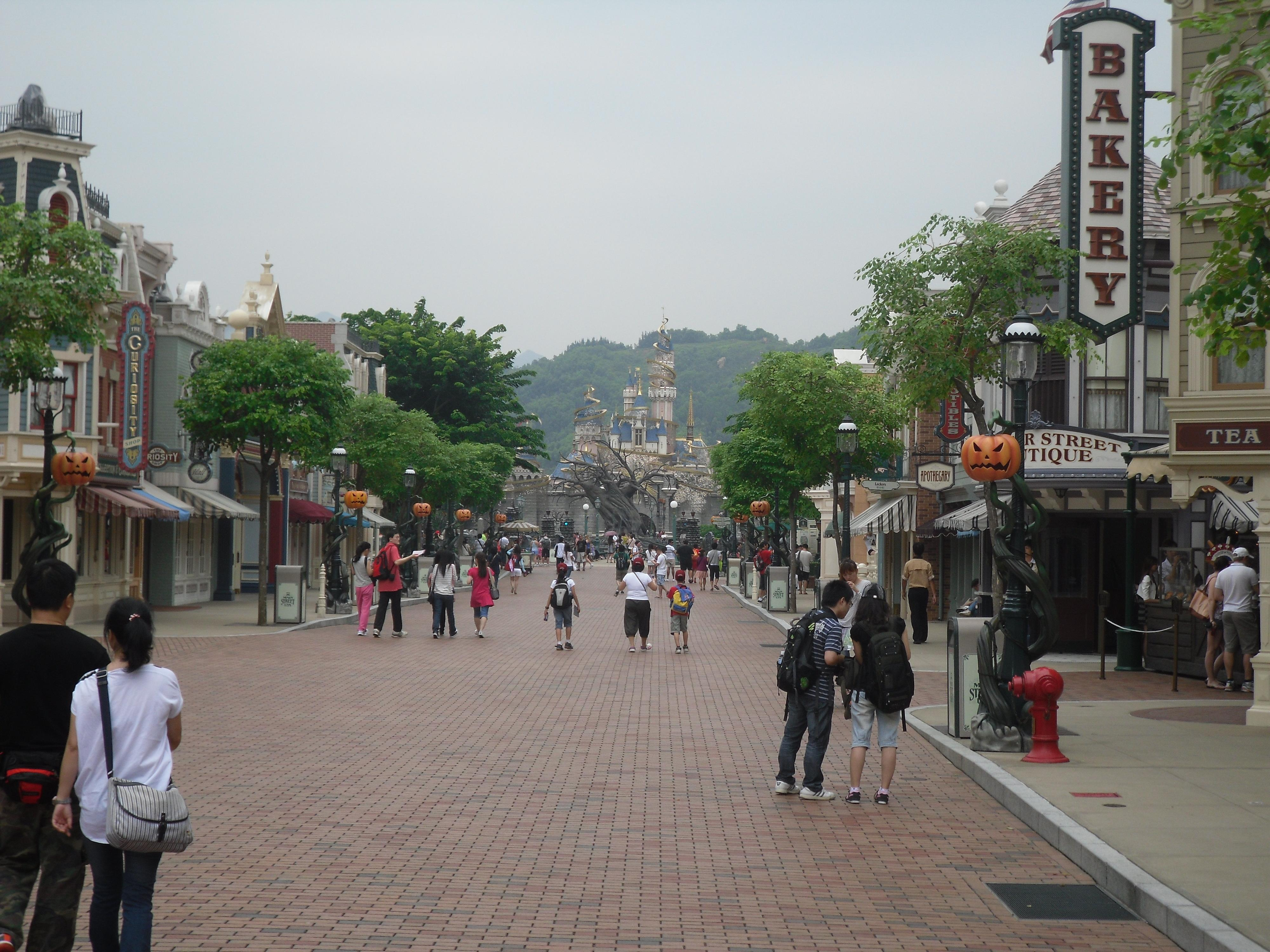 Hong Kong Disneyland